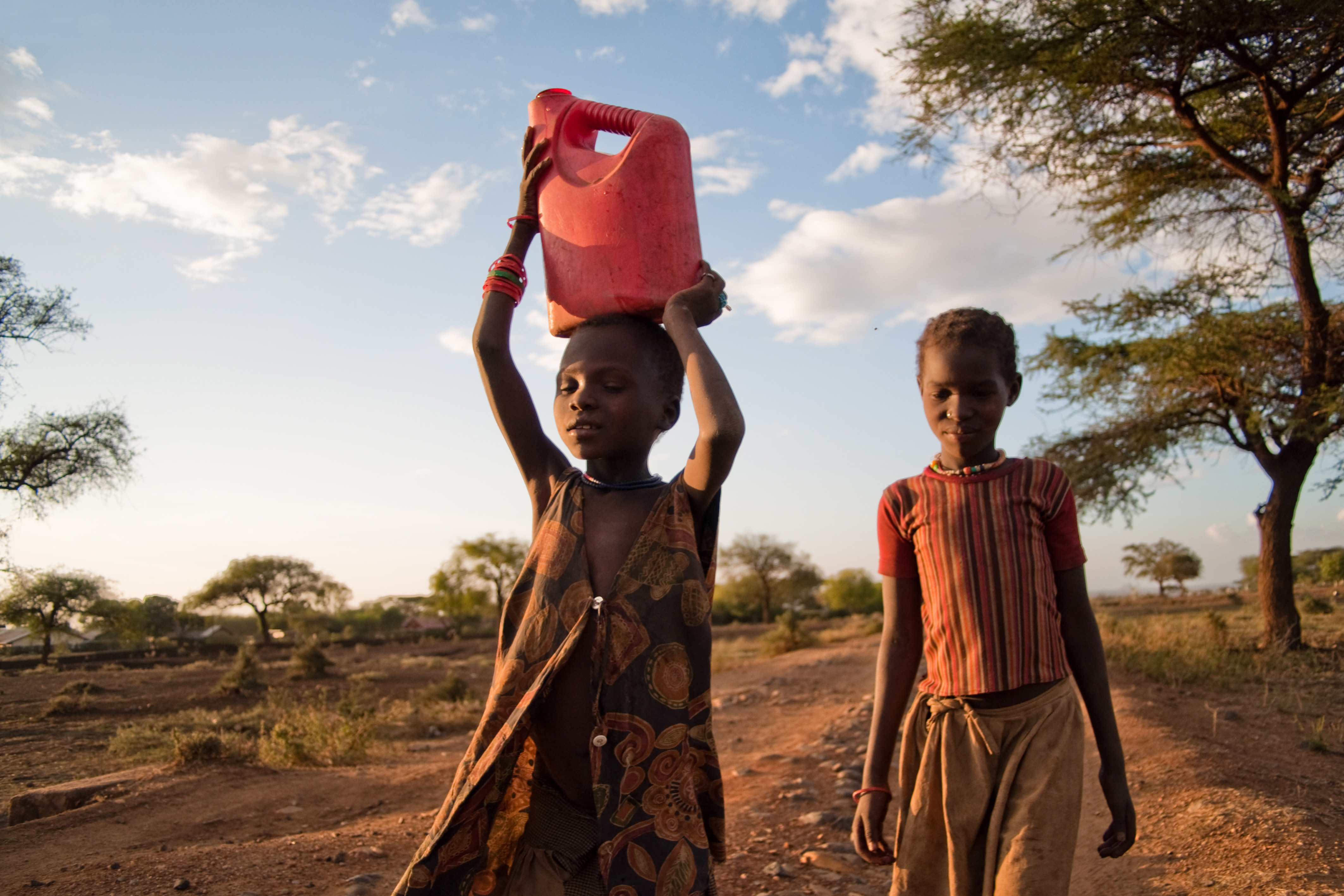 The Karamojong or Karimojong, an ethnic group of agro-pastoral herders living mainly in the north-east of Uganda. Many Karimojong children have to help in with chores in family life and are part of the collective work force, leaving less time for study and education.